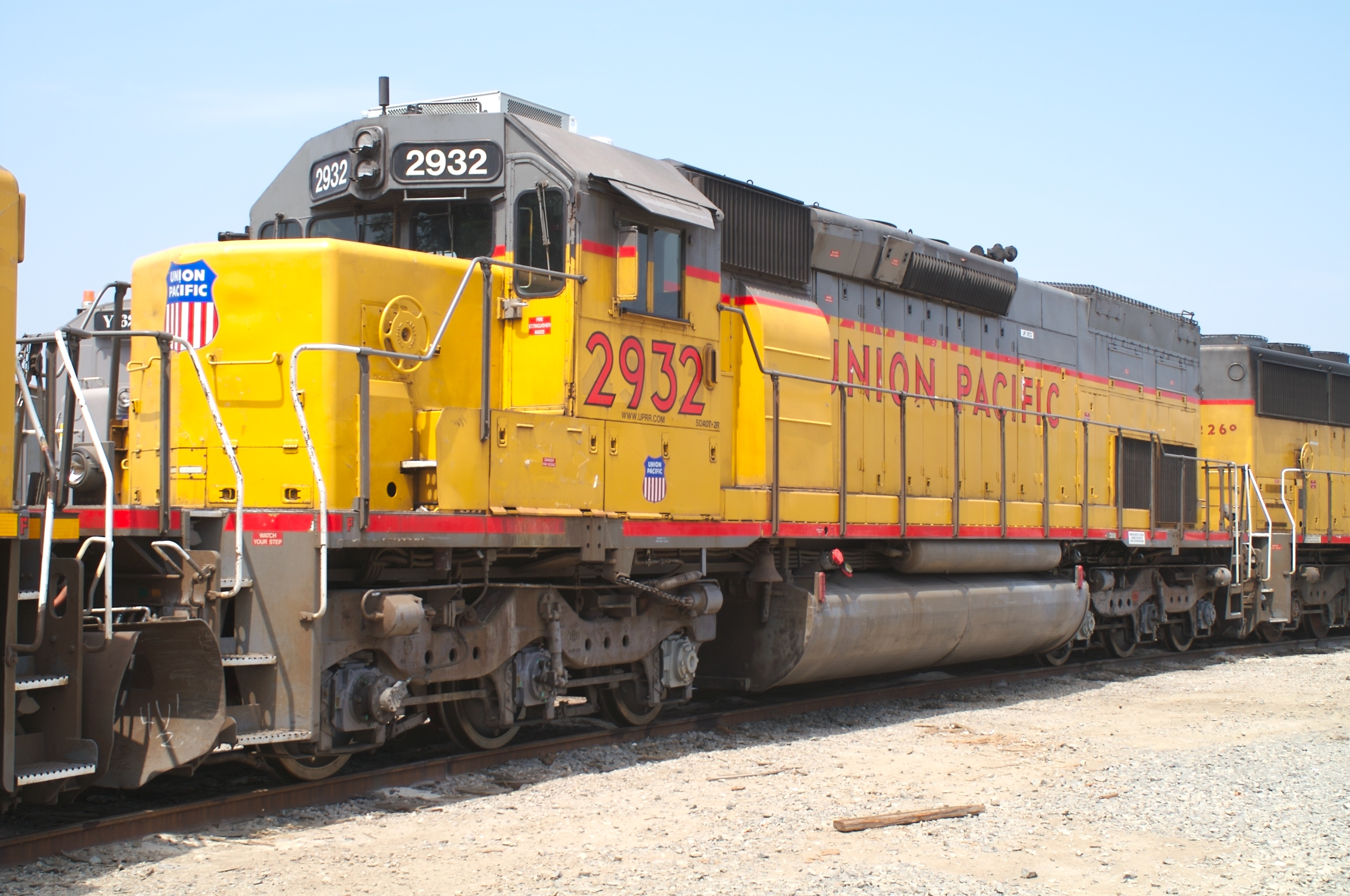 EMD SD40T-2 Locomotive UP 2935 at Anaheim, California, USA.